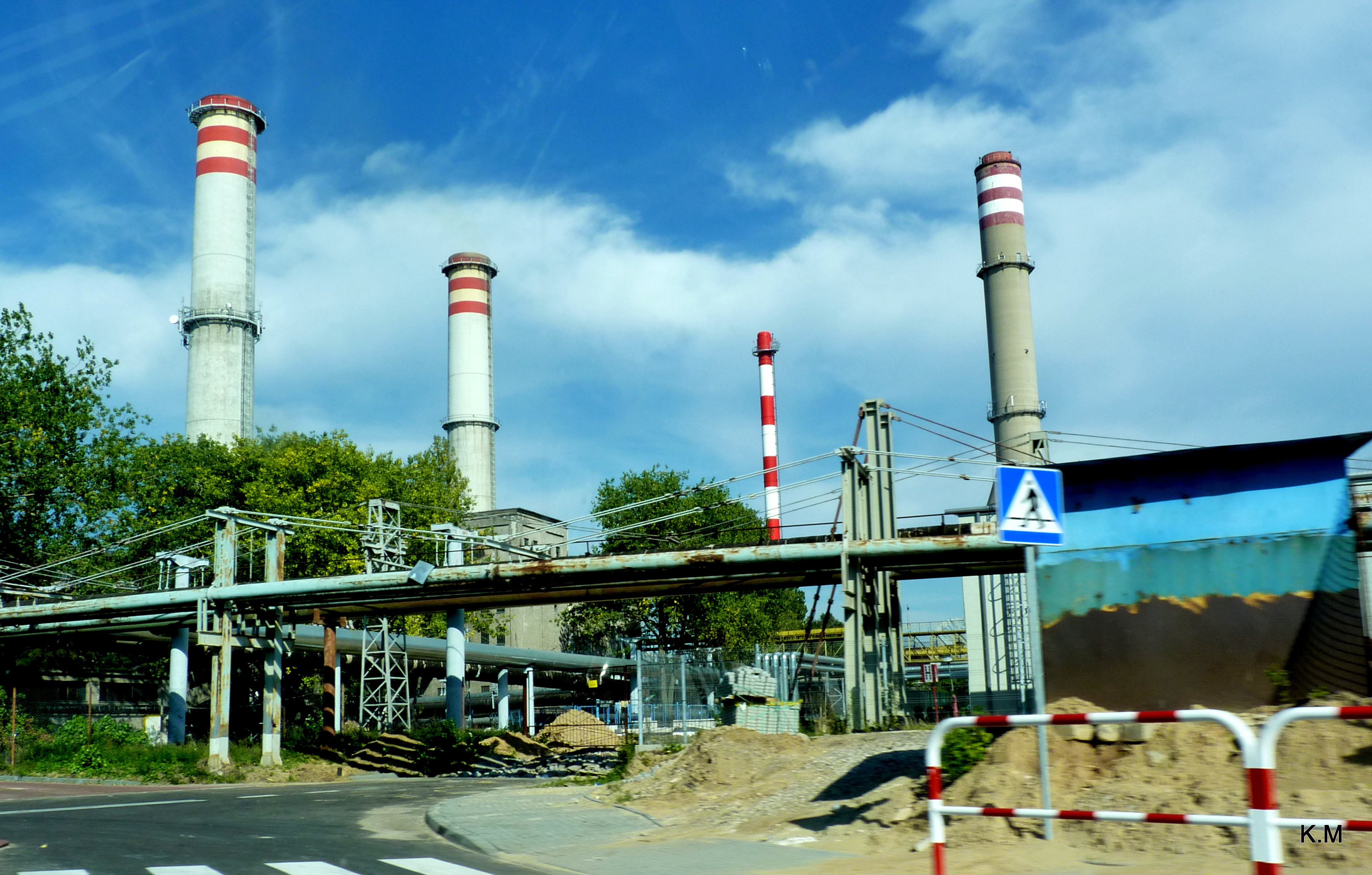 Konin Power Station, Poland